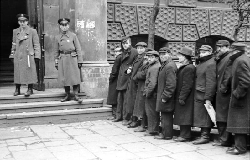 Warsaw Ghetto: Crowds in front of former Business School at Prosta 14 (14/16?) street intersection with Waliców 2/4. During WWII this building was housing different government institutions. Crowds are likely due to one of two large actions to register forced laborers from Ghetto.